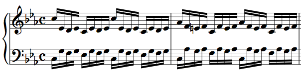 The first two bars of Bach's Prelude in C Minor, from the Well-Tempered Clavier, Book 1. Because it was published several hundred years before 1923, it is in the public domain